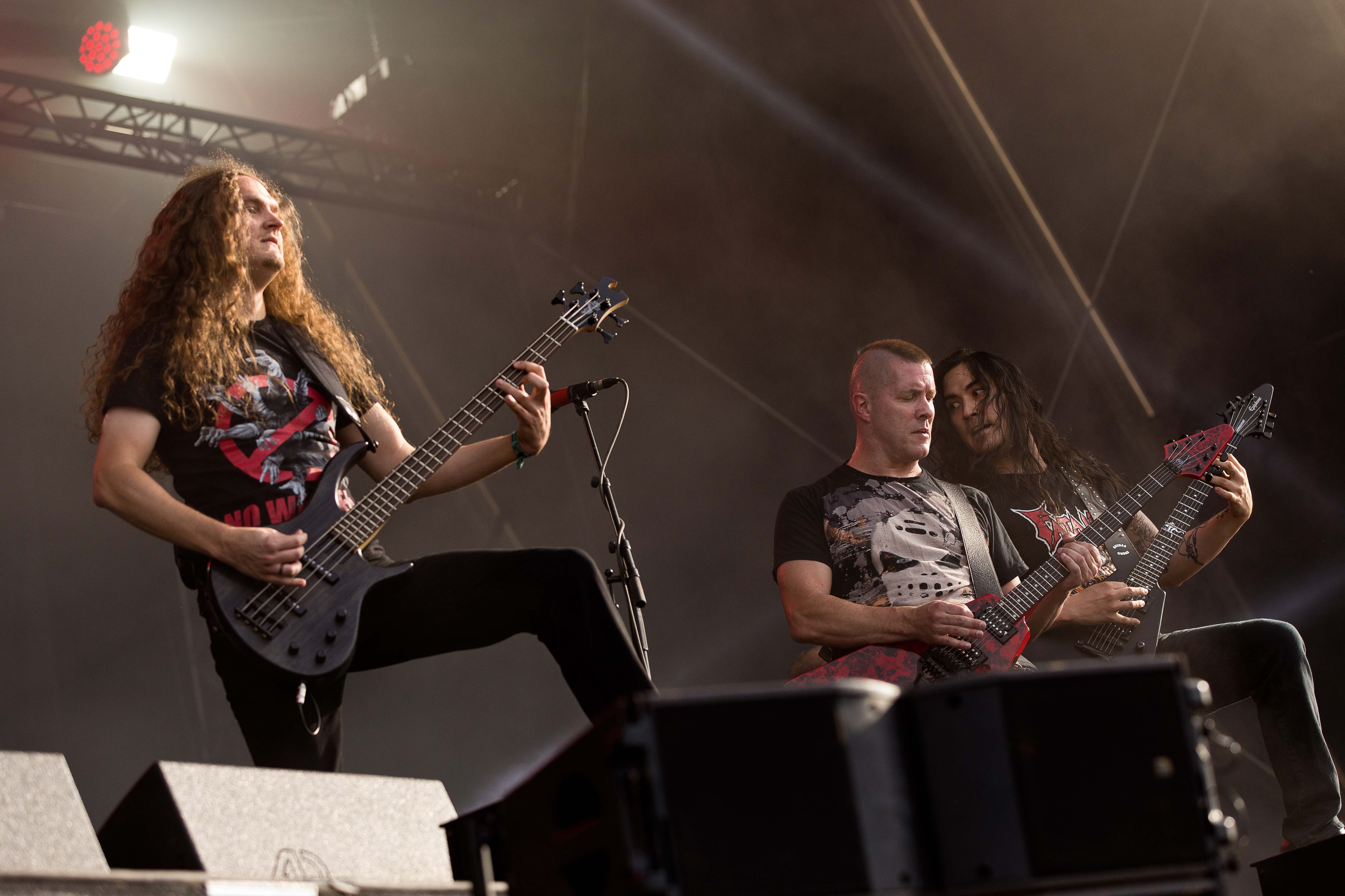 The Canadian thrash metal band Annihilator at the Rockharz Open Air 2016 in Ballenstedt/Germany.